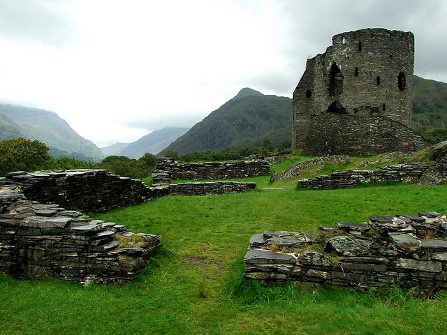 Dolbadarn Castle guarding the pass